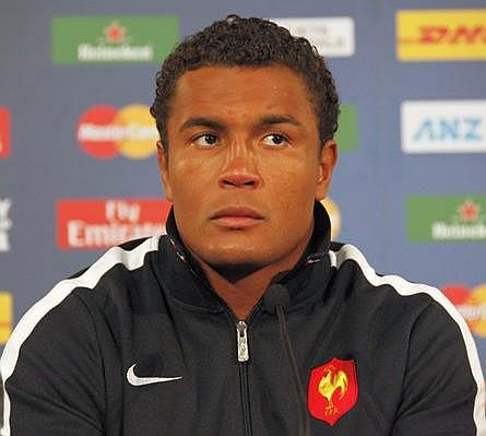 Thierry Dusautoir, captain of France national rugby union team, at a press conference during the 2011 Rugby World Cup